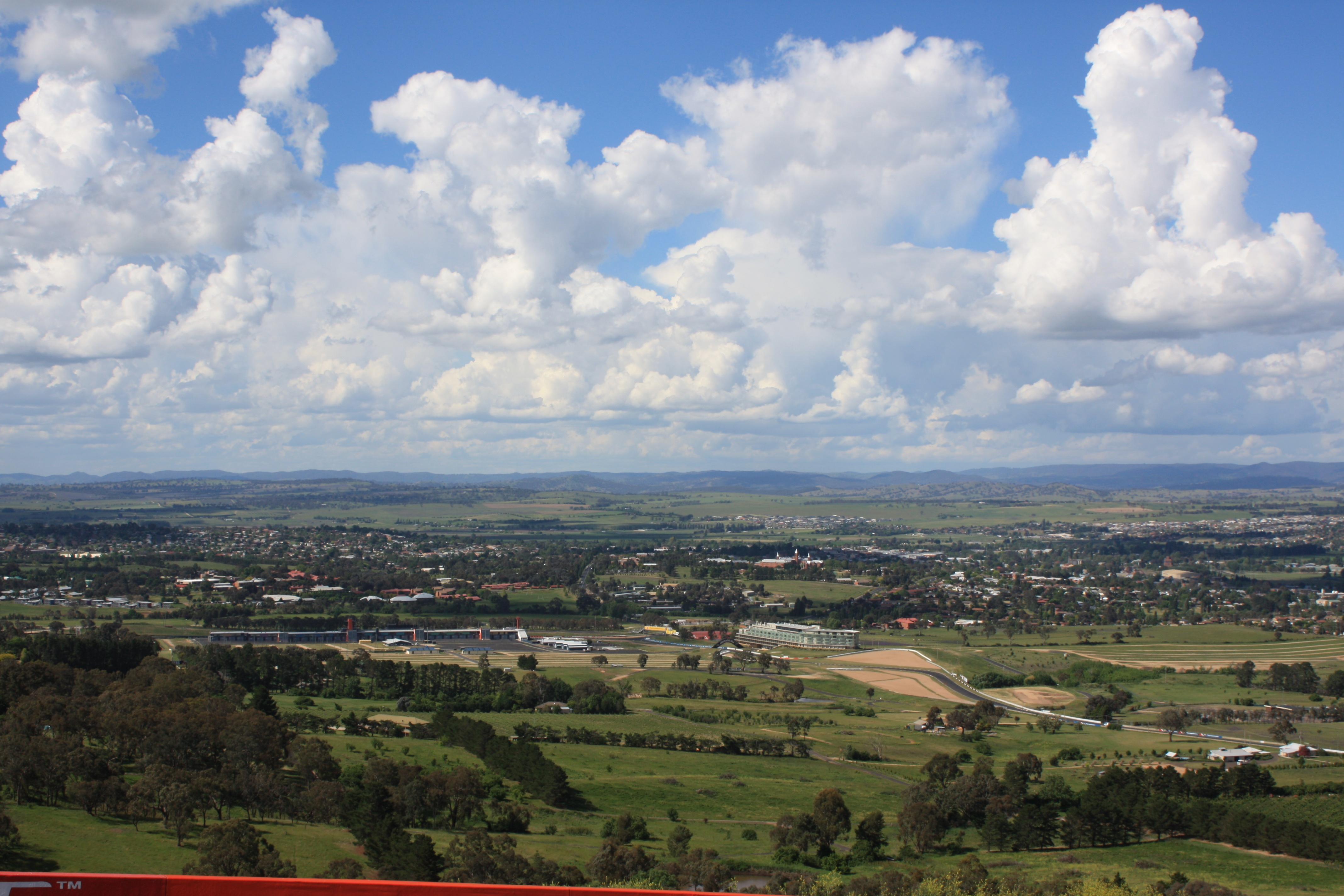 Bathurst, NSW